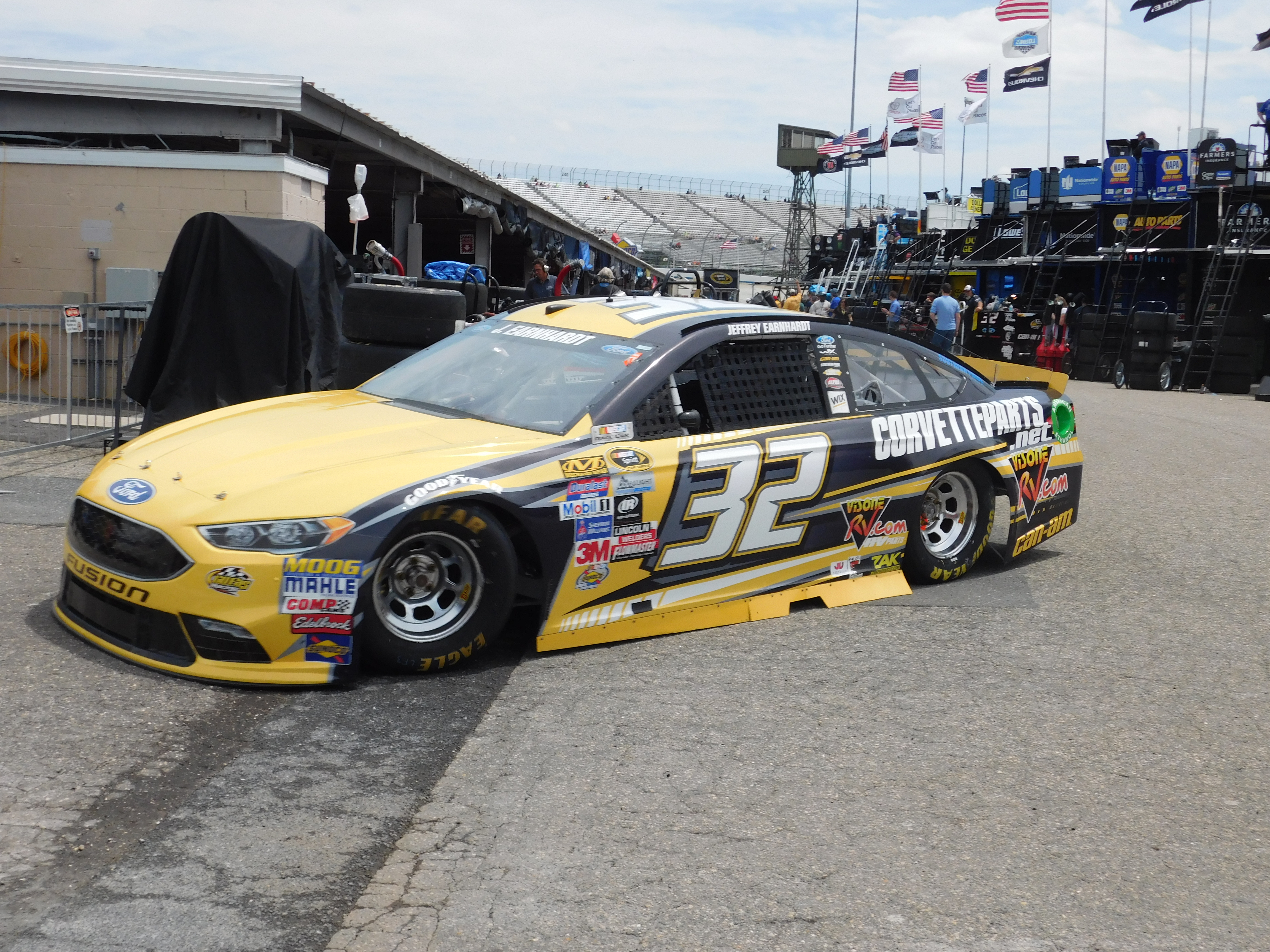 Jeffrey Earnhardt's No. 32 Ford at Dover International Speedway in 2016